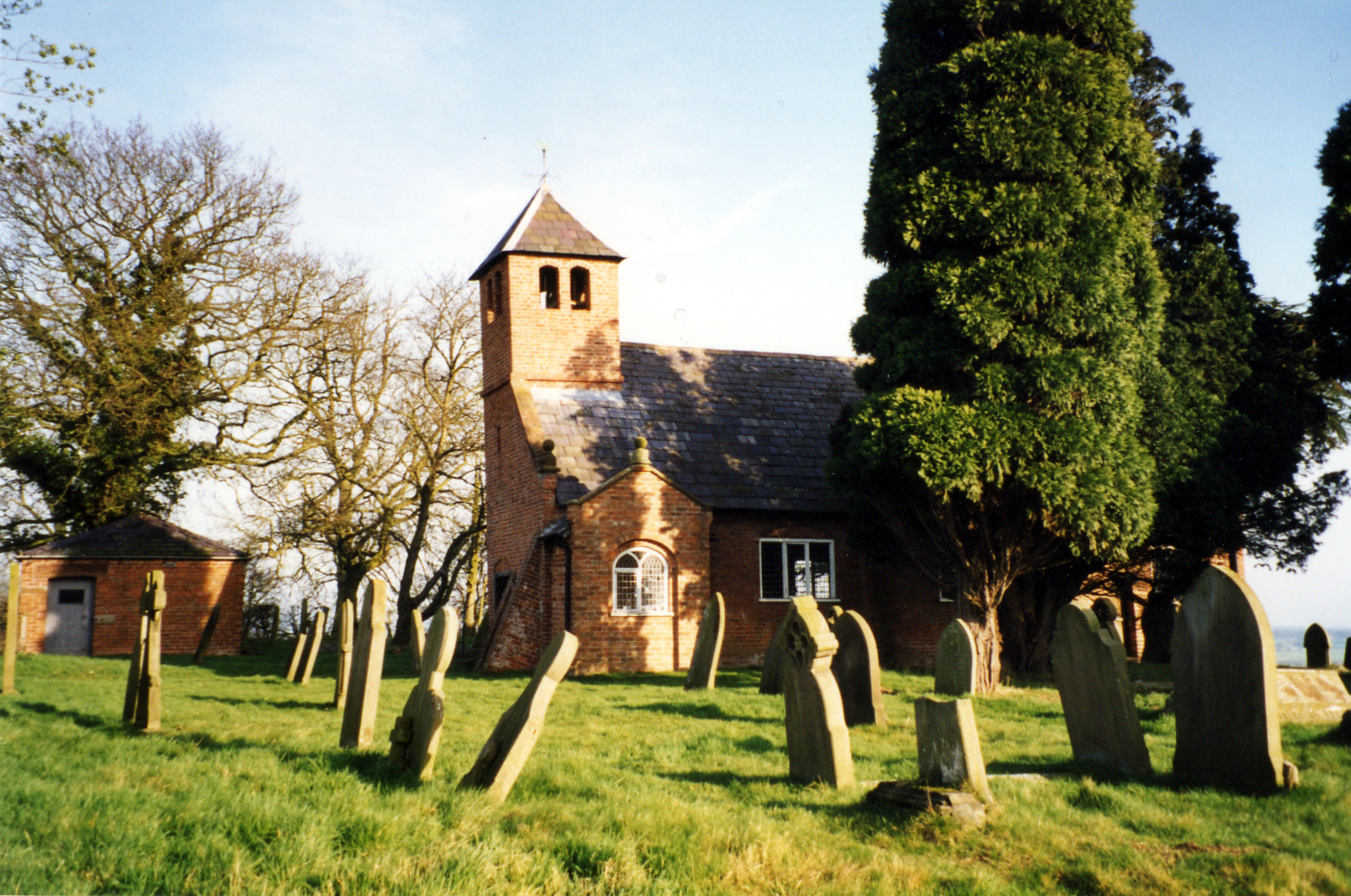 Photograph